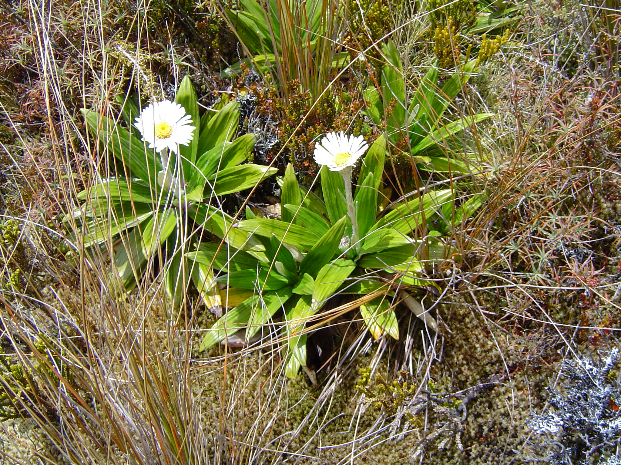 Celmisia spectablis in flower. Mt Ruapehu, Tongariro National Park, New Zealand